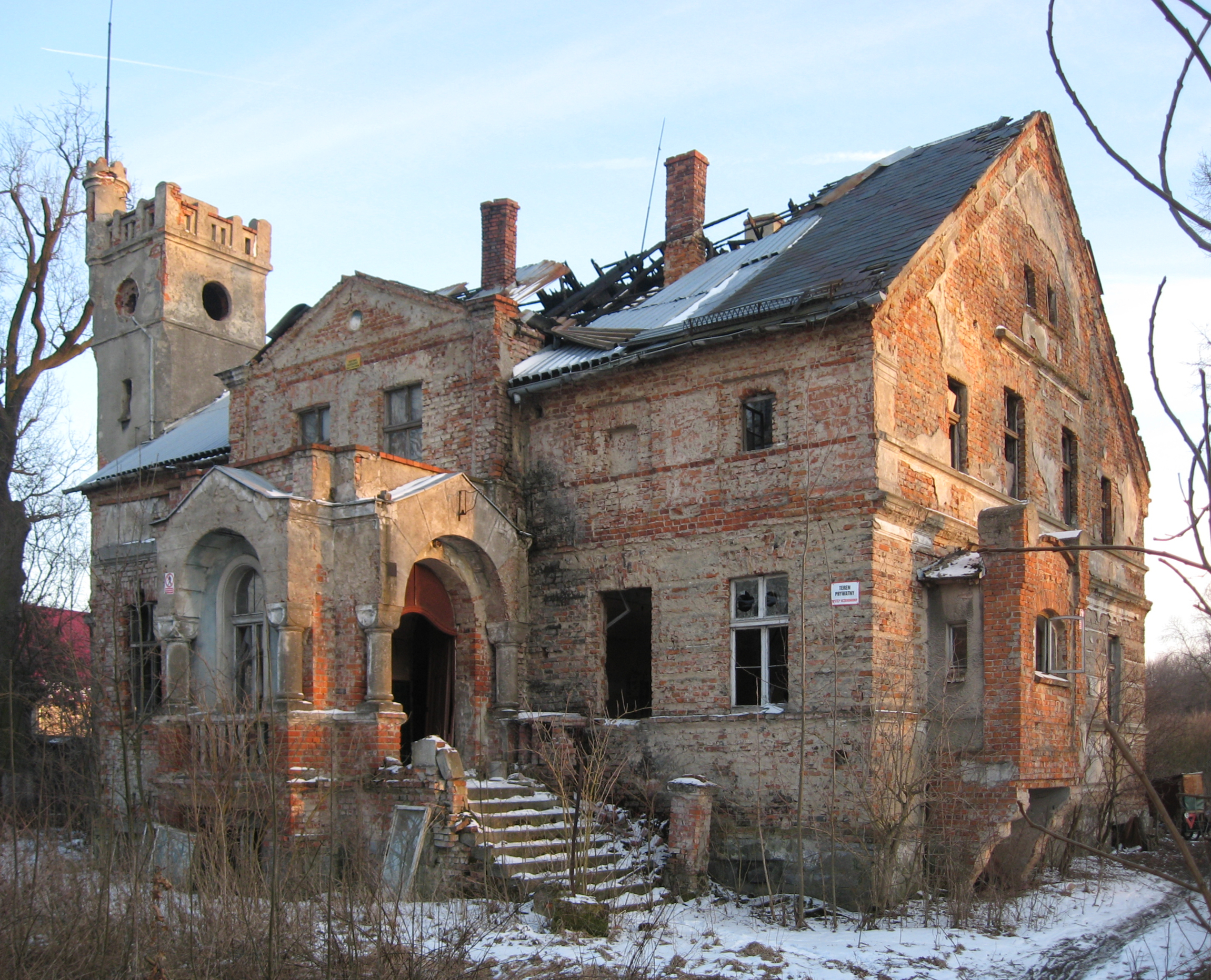 Nowy Śleszów (Neu Schliesa; Neu Schlesing) - manor house